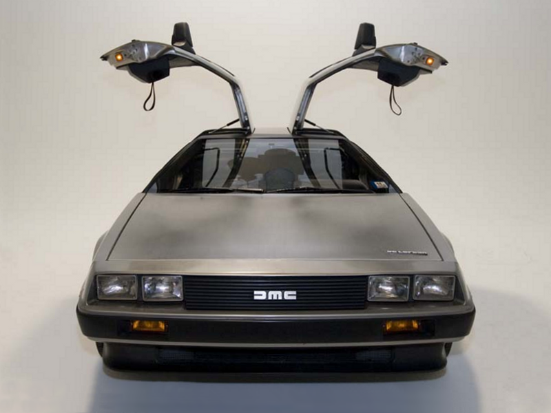 DeLorean DMC-12 Head on photo with doors open